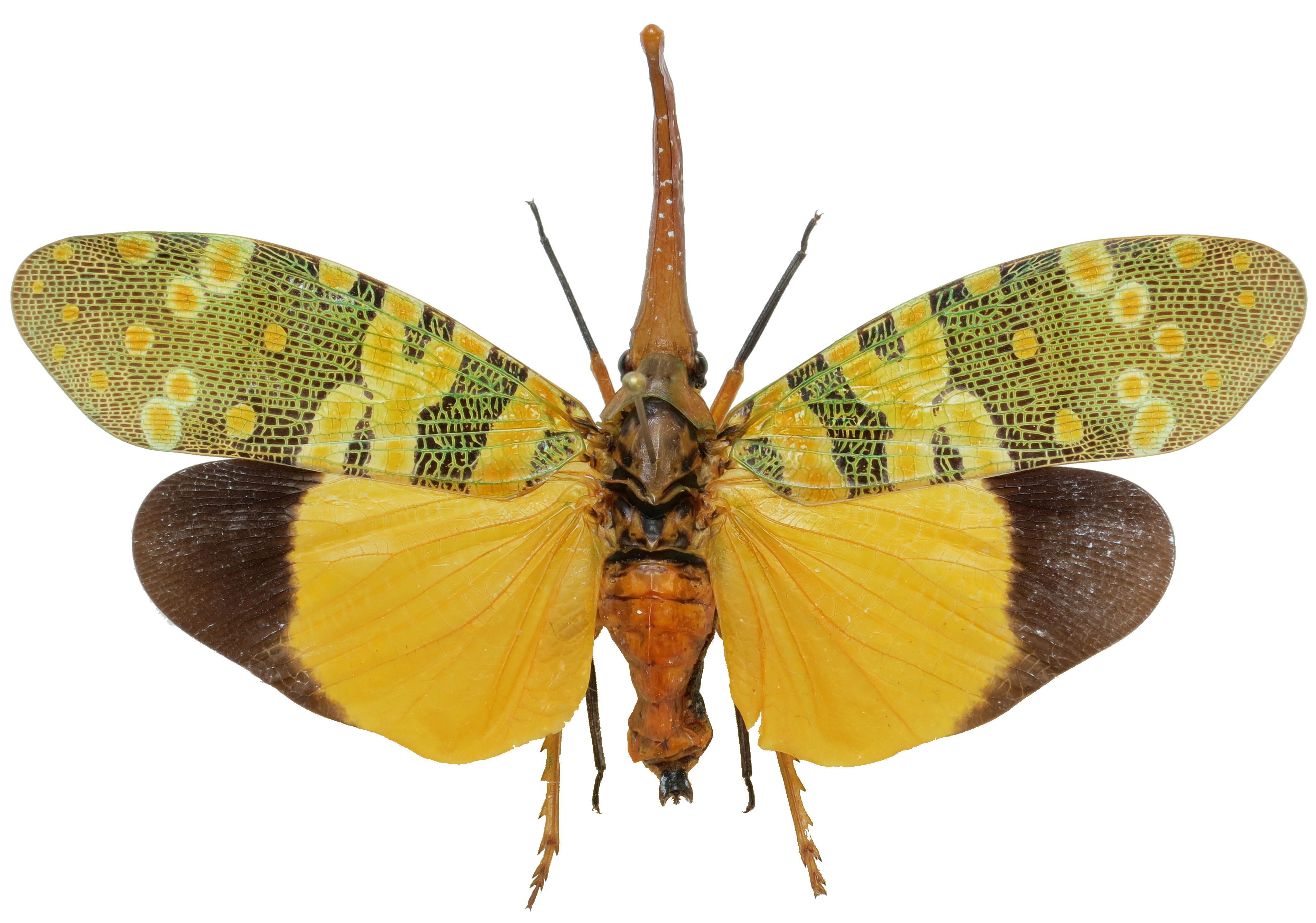 P. Candelaria from Umphang, Tak, Tailand (01/2004)